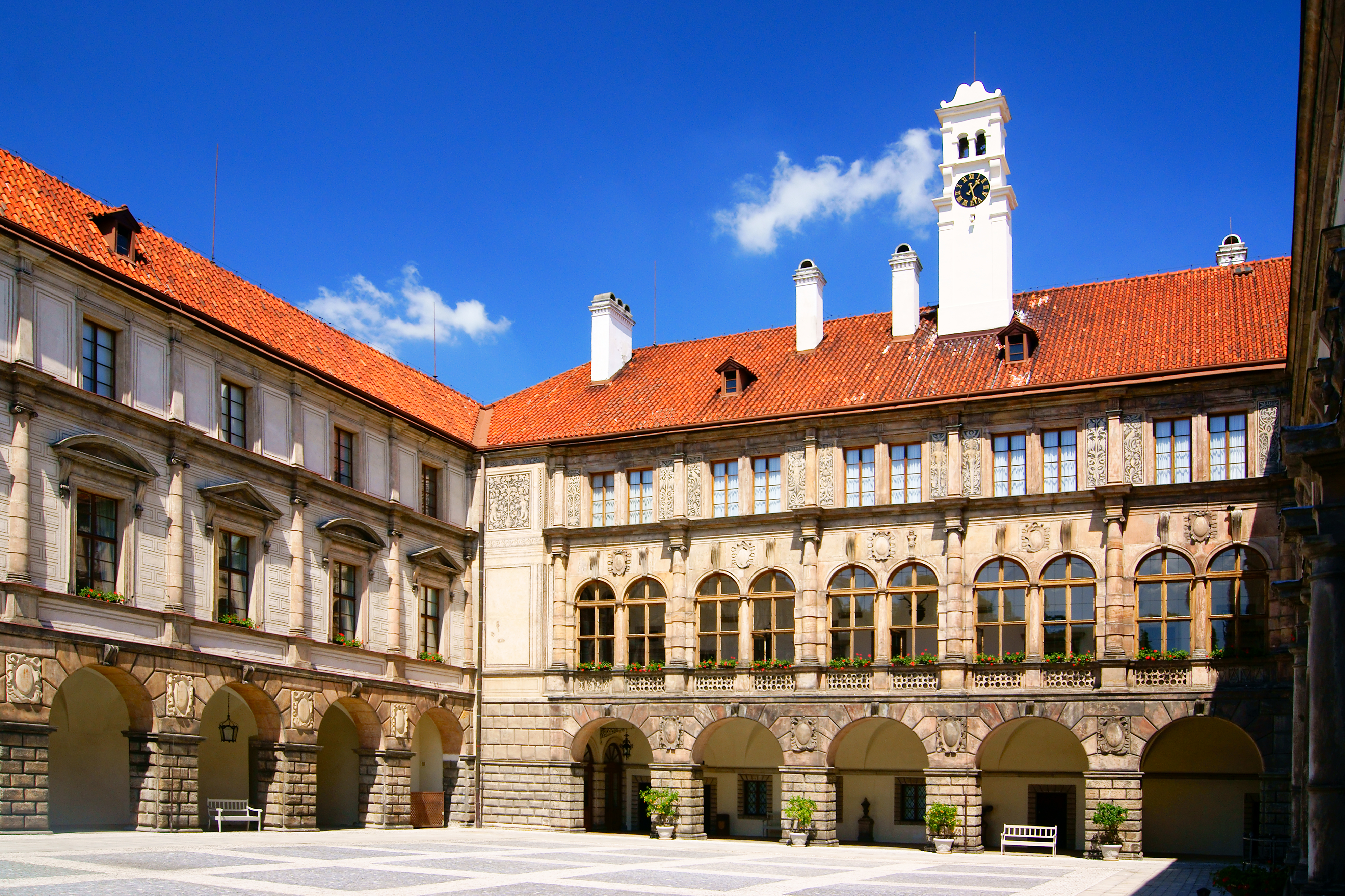 Nelahozeves (Czech republic), castle.